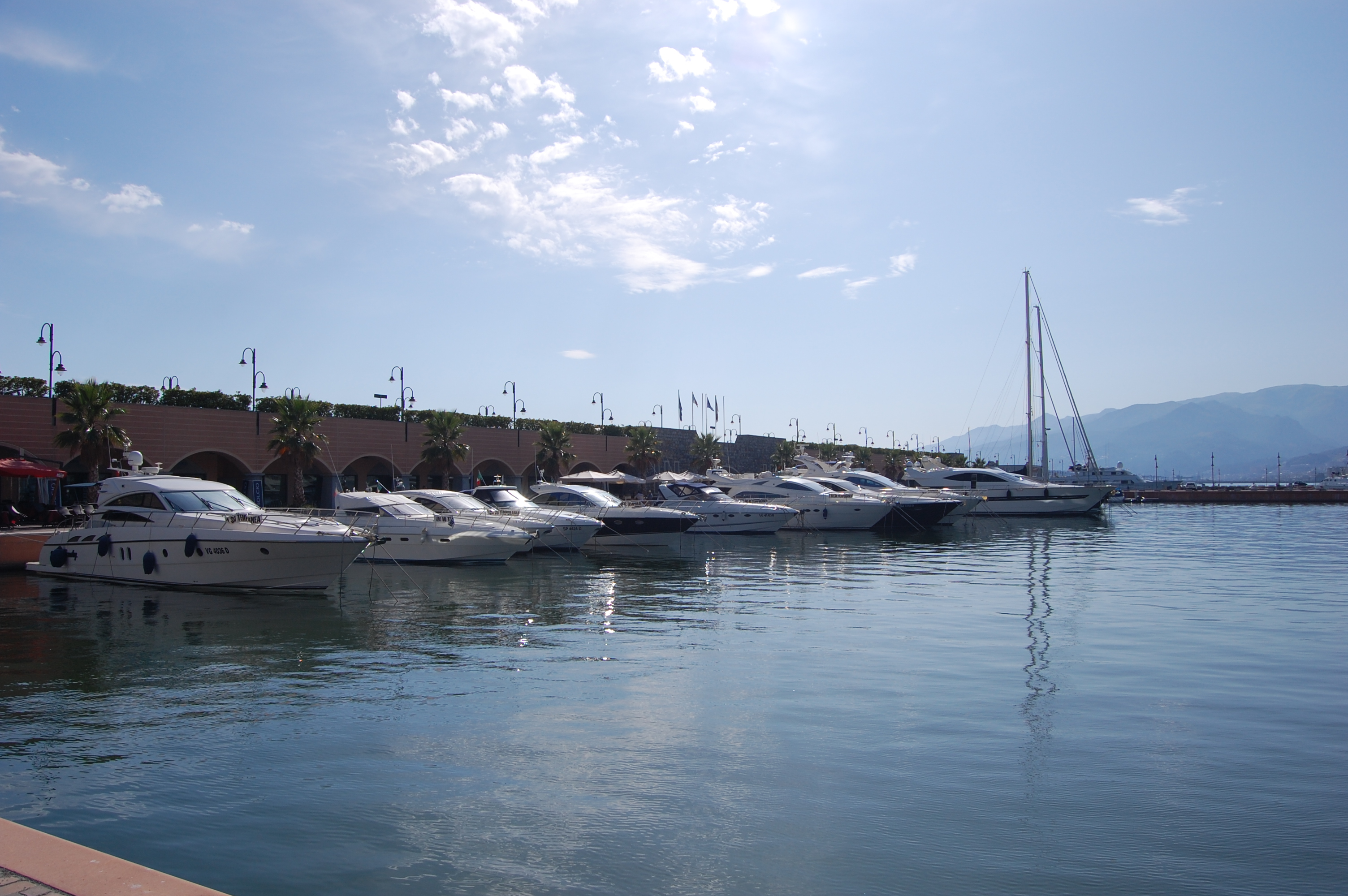 Marina aeroporto